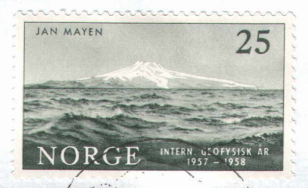 The picture is from an original painting made by Professor Henrik Mohn (+ 1916) in 1881. Mohn visited Jan Mayen in 1877 as the leader of the Norwegian North-Atlantic Expedition (1876-78).